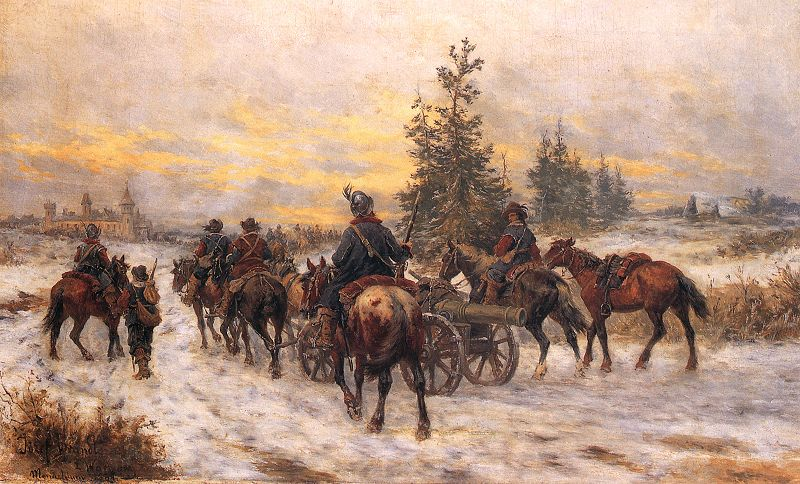 Painting by Józef Brandt. "The March of Swedes for Kiejdany". The Deluge (Polish-Swedish War of the 17th century). Swedish forces marching on Kiejdany, town of the wealthy Polish magnates, the Radziwiłł family.